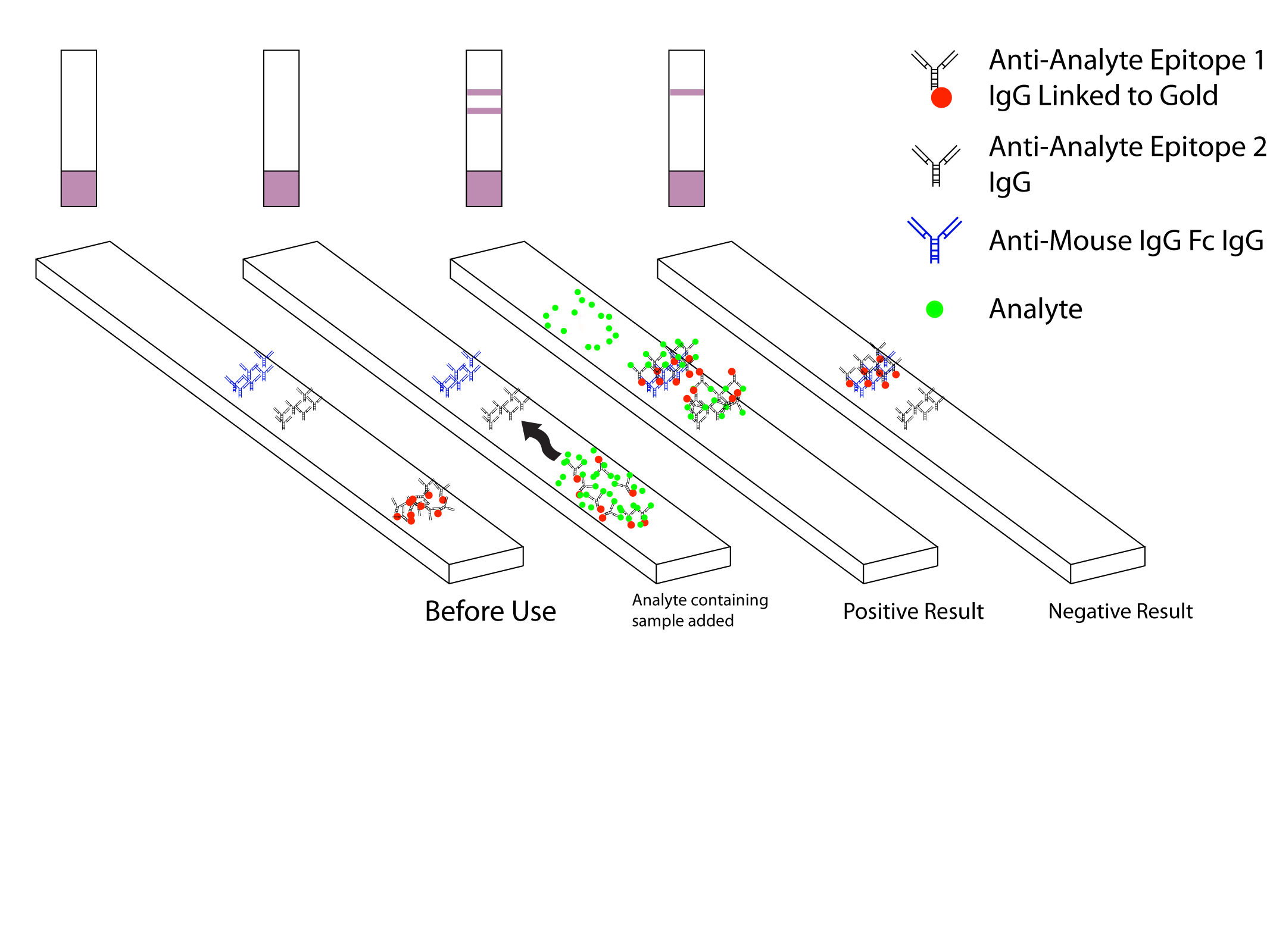 Diagram briefly describing the function of medical diagnostic dipsticks.